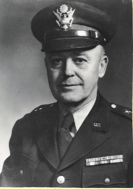 Major General Joseph A. Redding, circa 1952